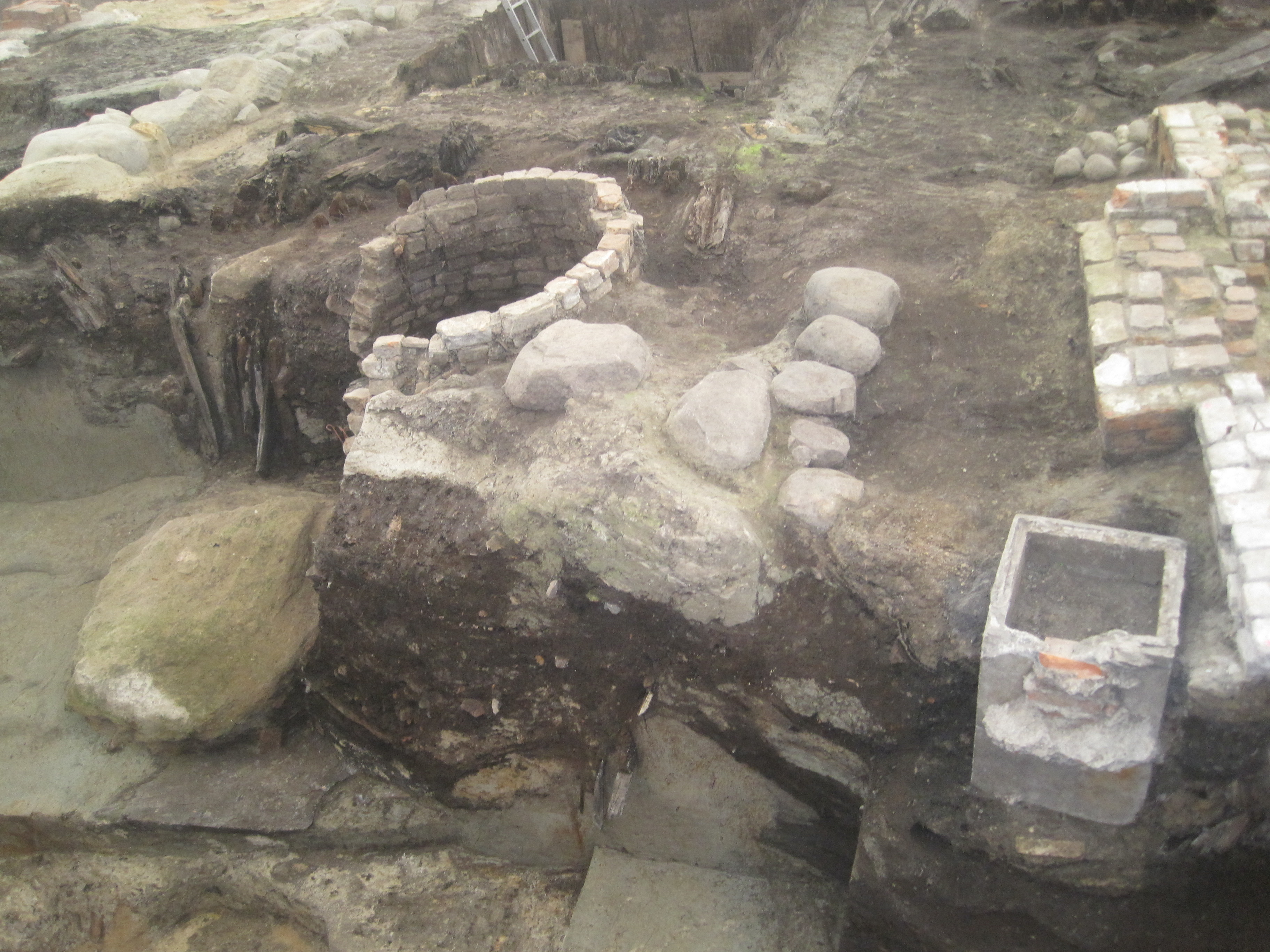 2013 excavations Hanseschule Lübeck